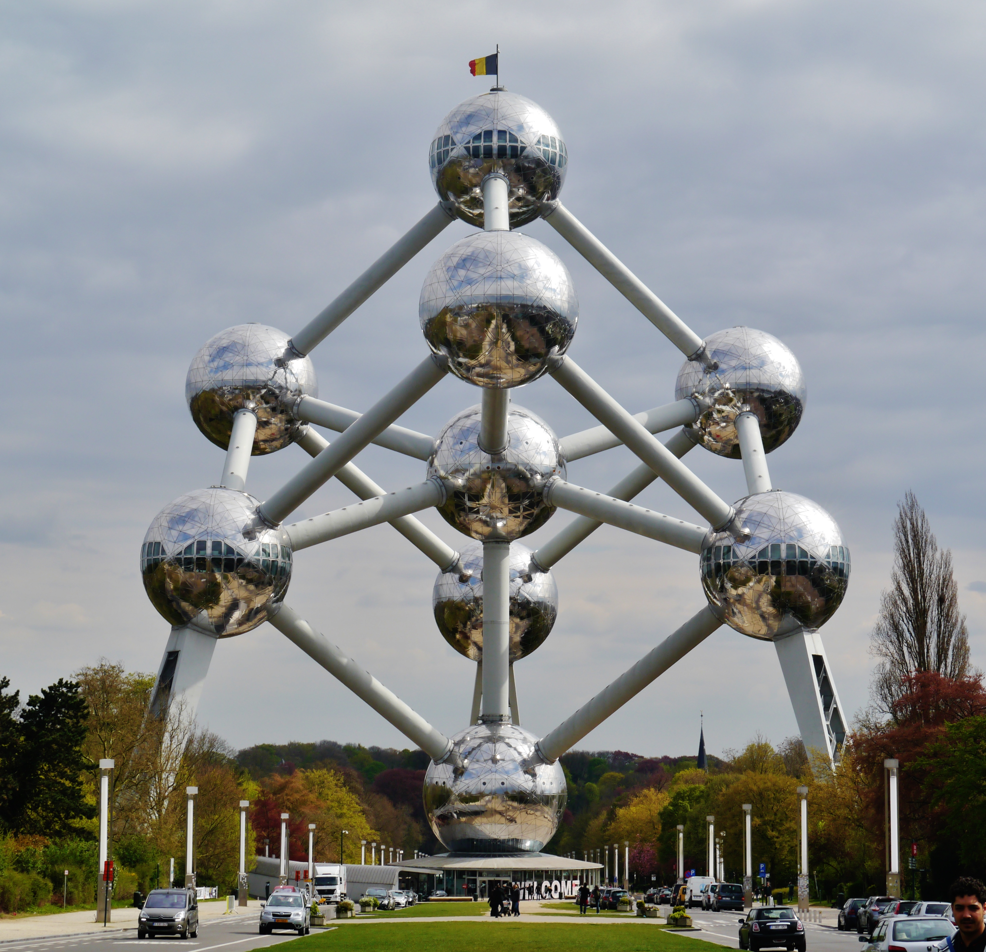 Atomium, Brussels, District of Laeken, Region of Brussels, Belgium